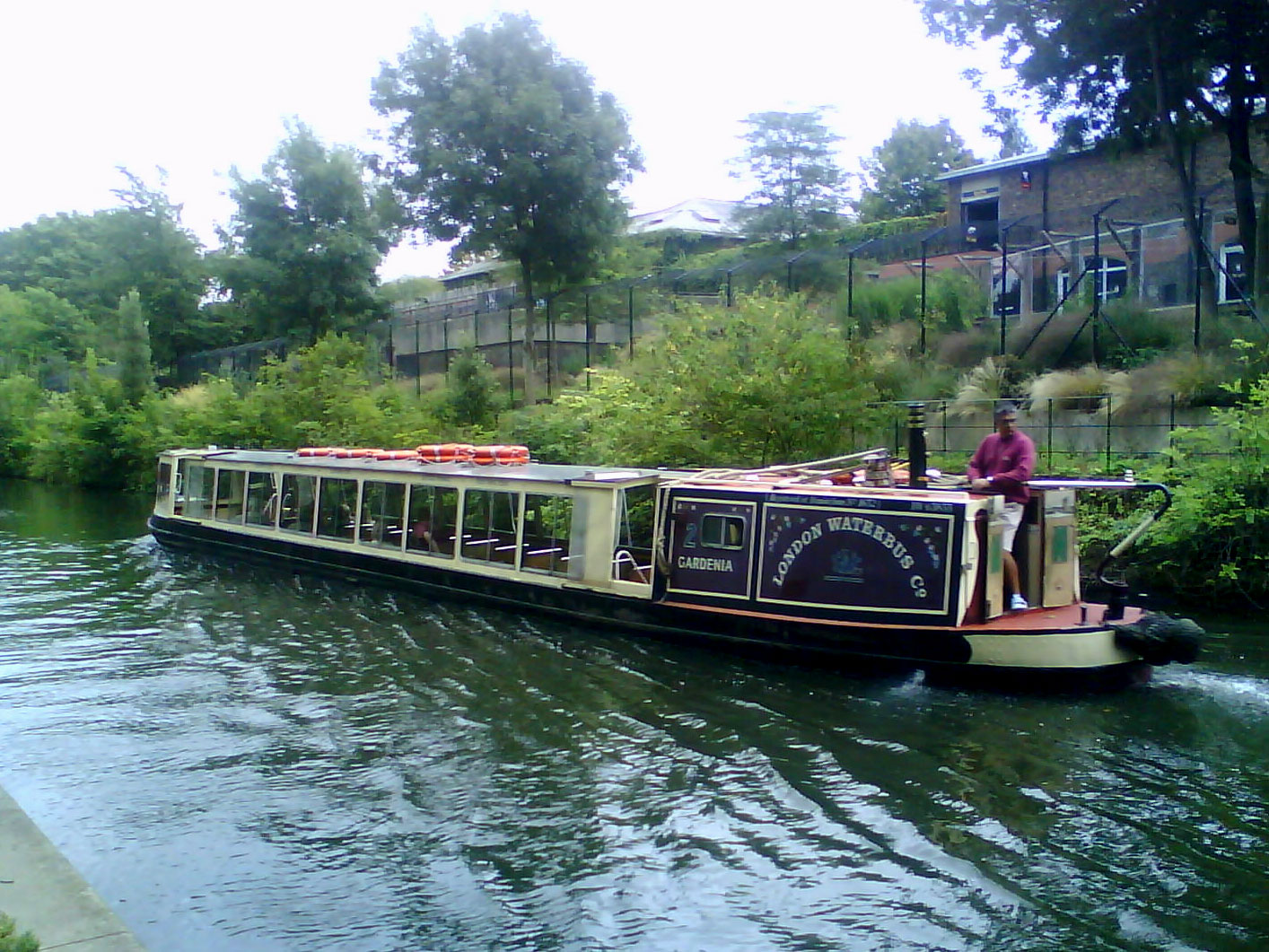 A narrowboat of the London Waterbus Company on the Regent's Canal in London, UK